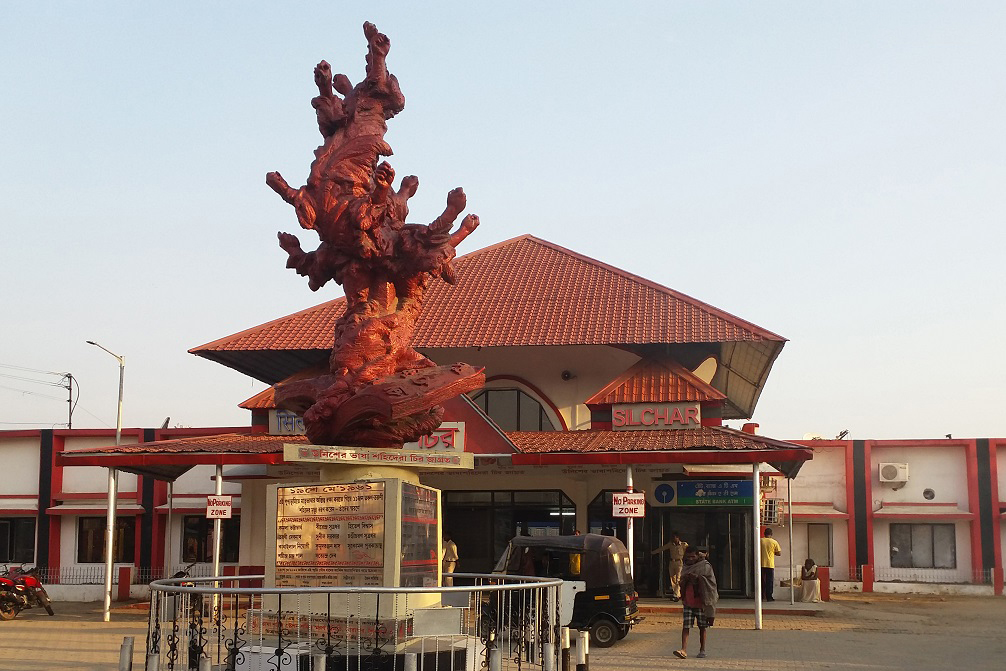 This a picture of new railways station as of 19th March 1991